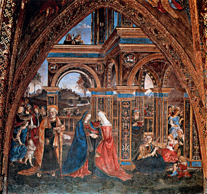 The Visitation Fresco Borgia Apartments, Hall of the Saints